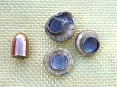 Impact of standard industrial .32 FMJ bullets at Kevlar.